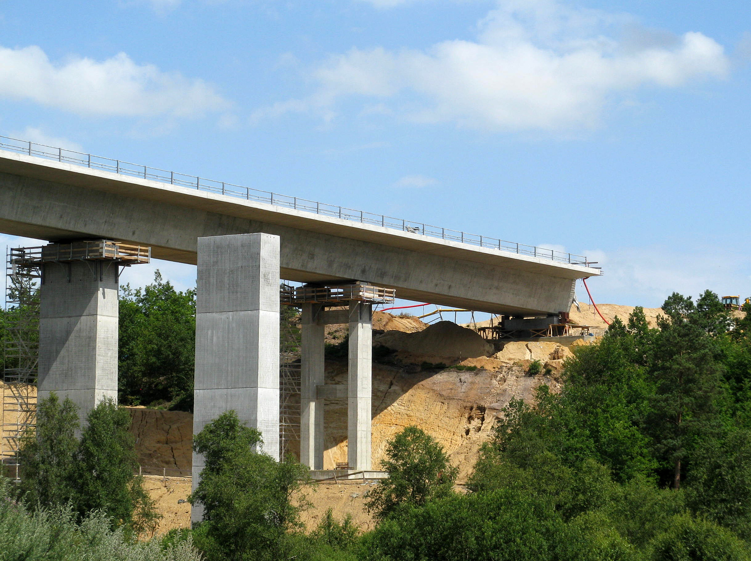 Bridge under construction, crossing Funder Å by Hørbylunde Bakke in central Jutland, Denmark